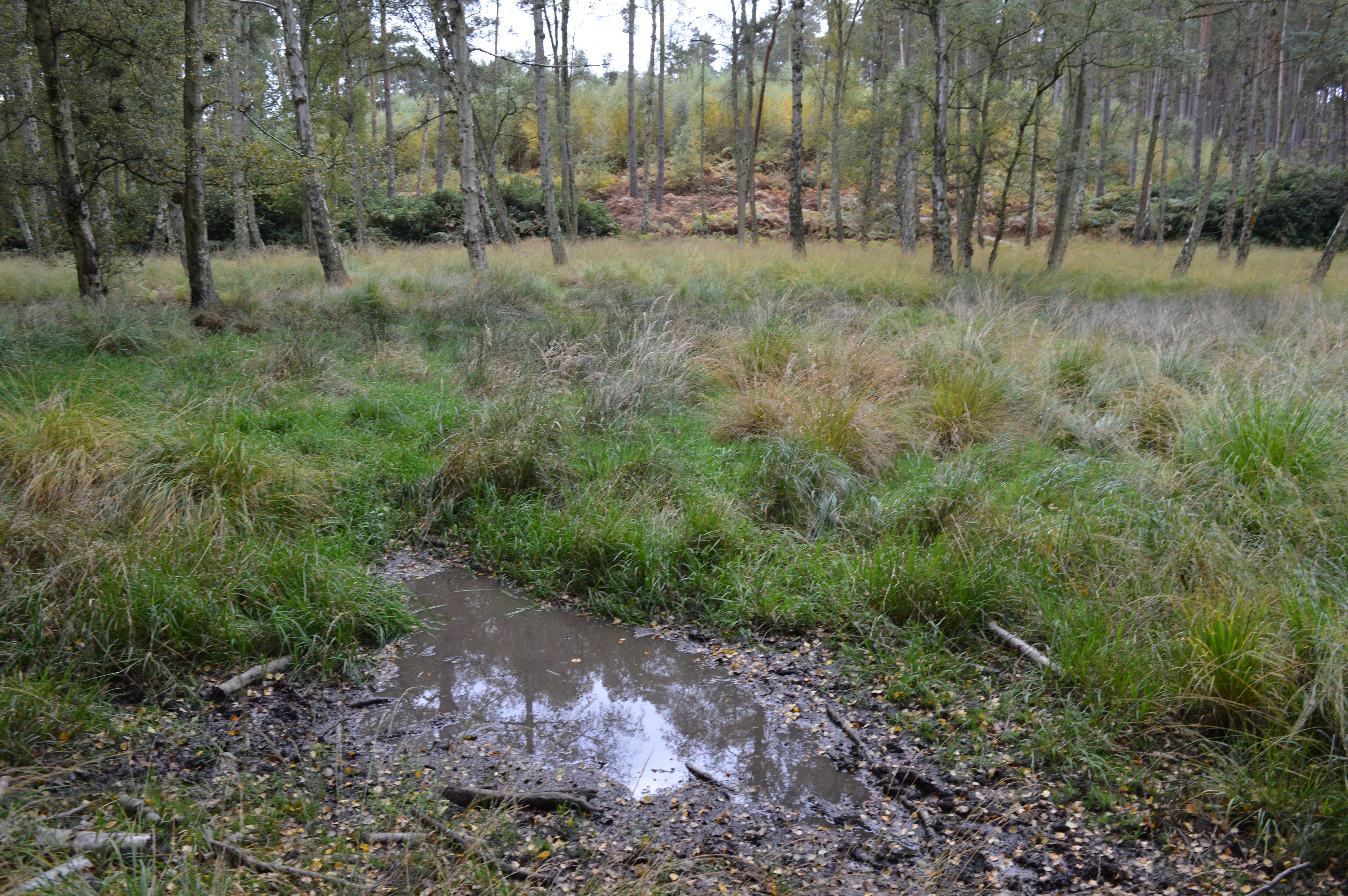 Wavendon Heath Ponds, a Site of Special Scientific Interest south of Woburn Sands in Bedfordshire